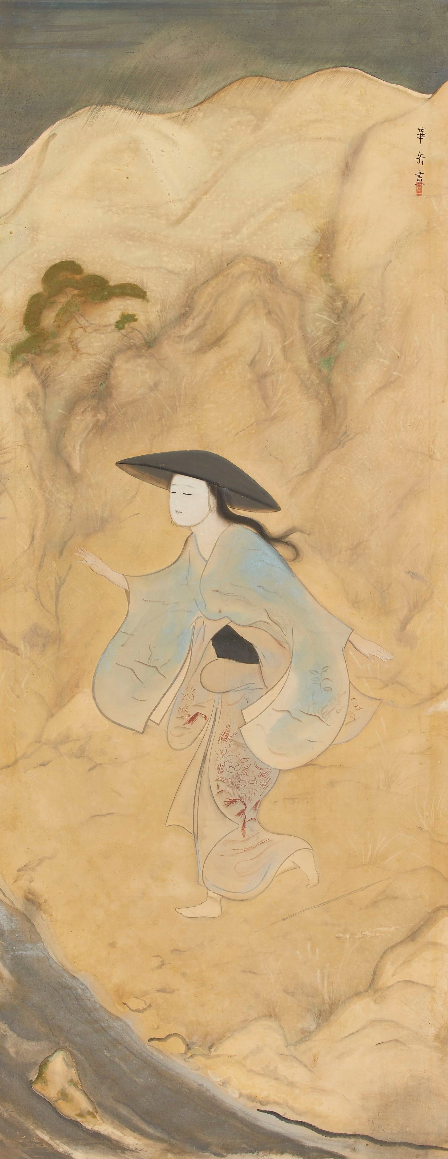 Murakami Kagaku: Kiyohime in the Hidaka river, 1919. Ink and color on silk, 143x55 cm. National Museum of Modern Art, Tokyo.